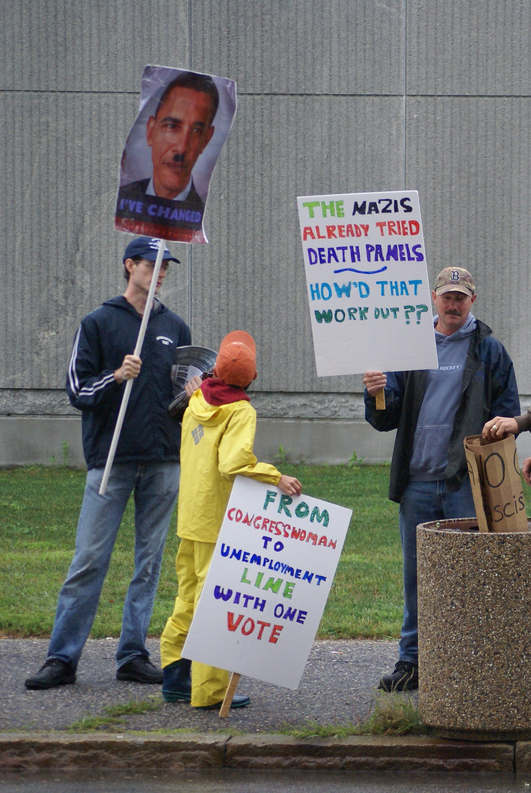 Anti-health Care reform activists at Rep. Carol Shea-Porter's townhall meeting.